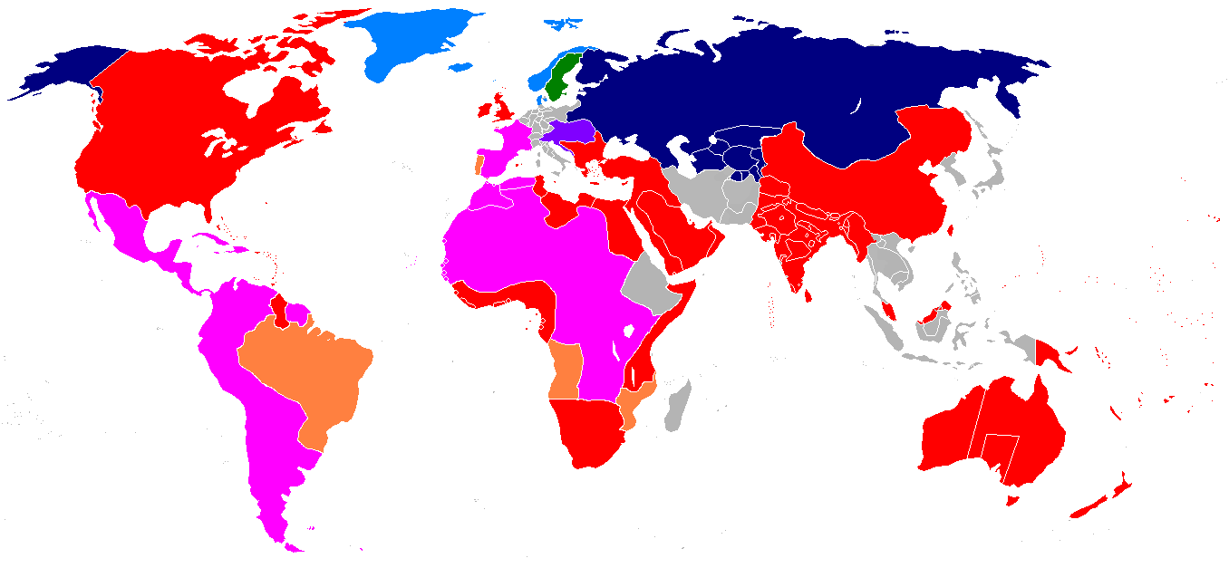 Map of the world in Harry Turtledove's novel The Two Georges. Red denotes British Empire and its protectorates; Purple is the Austrian Empire; pink is the territory of the Franco-Spanish "Holy League", light blue is Danish territory; dark green is Swedish territory, orange is Portuguese and dark blue is the Russian Empire. Ownership and political organization of grey areas is unclear.